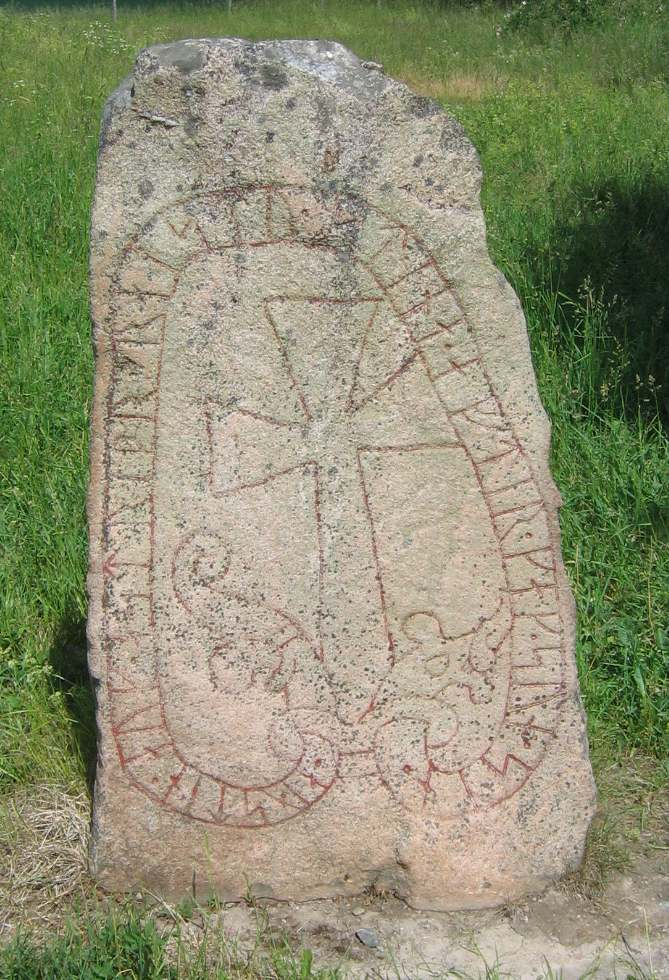 runestone at Broby bro, Uppland, Sweden